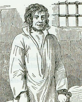 Johann Baptist Pflug, Drawing of Xaver Hohenleiter in captivity